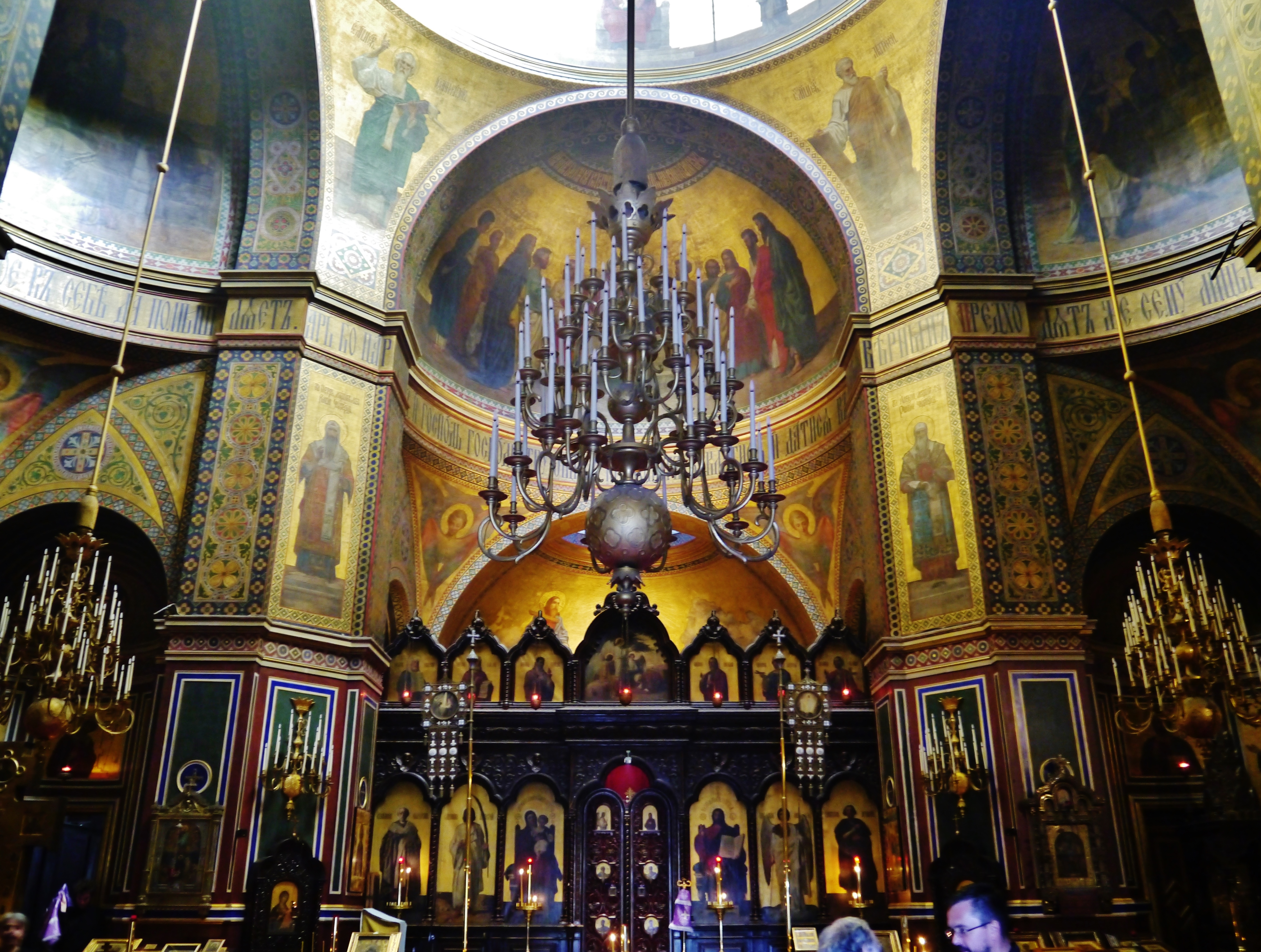 Prayer Hall of the Russian Orthodox Cathedral of St. Alexander Nevsky, Paris, Region of Île-de-France, France